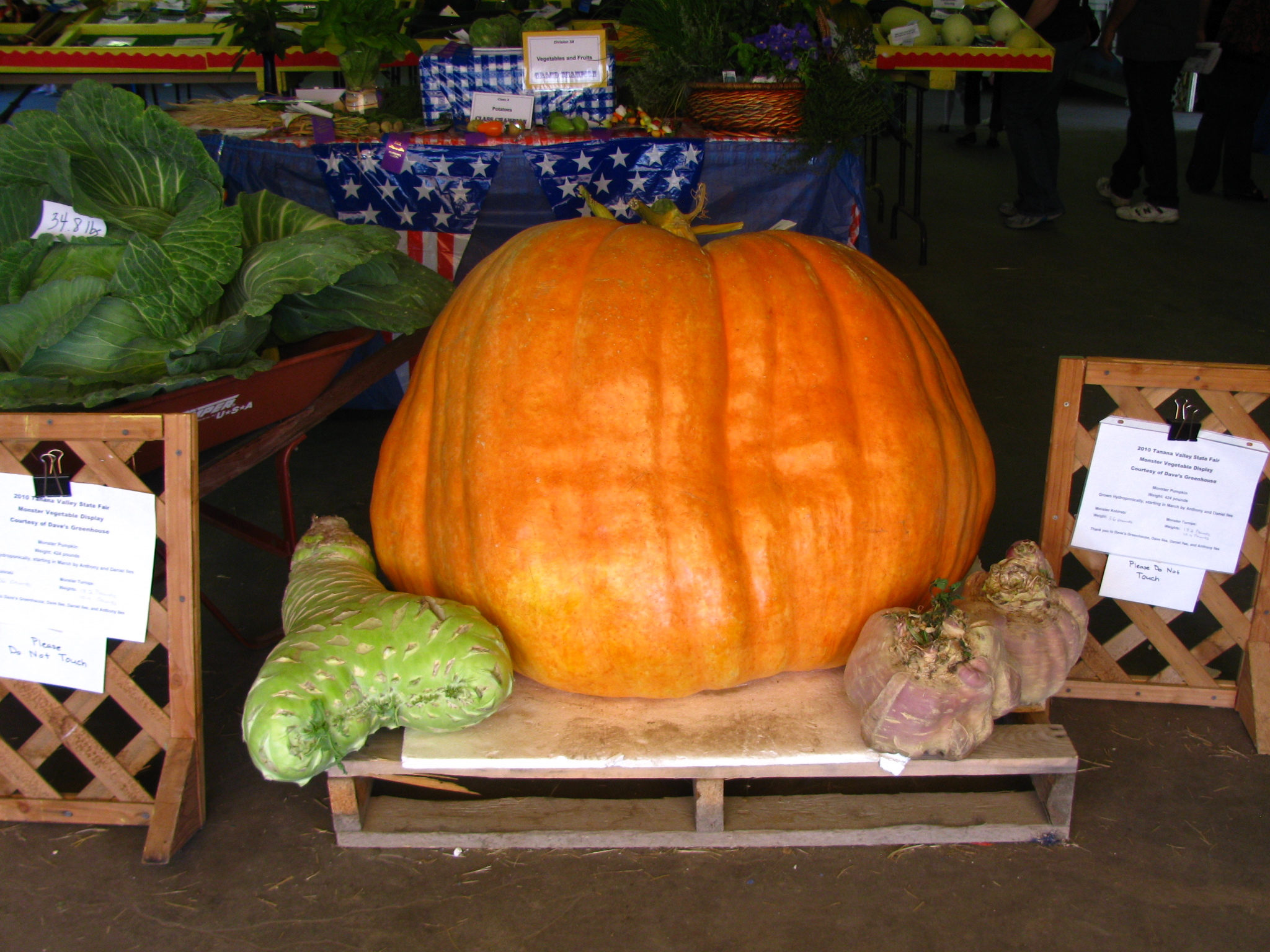 Photographer's comment: "huuuuuge pumpkin-- more than 400 pounds! Alaska huge cabbage, kohlrabi, and turnips. Yum?"